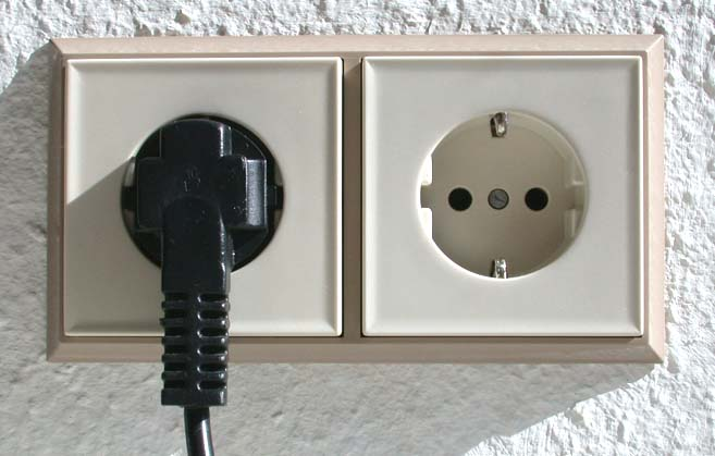 Schuko socket with one plug inserted copied from German Wikipedia [1]